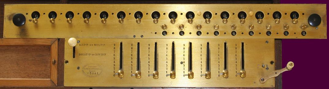 Detailed view of the Arithmometer